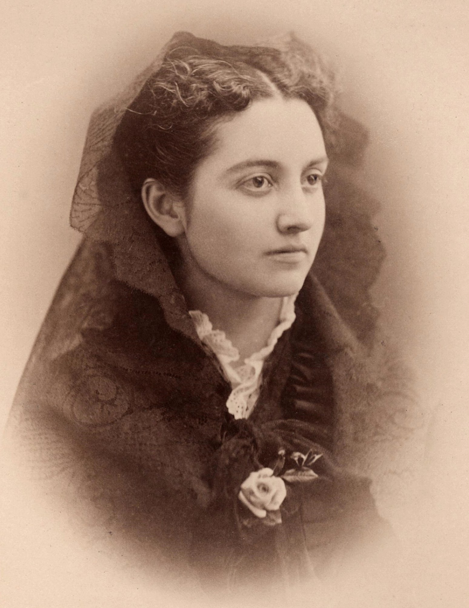 Mary Caffrey Low from class of 1875 photo album, Colby College